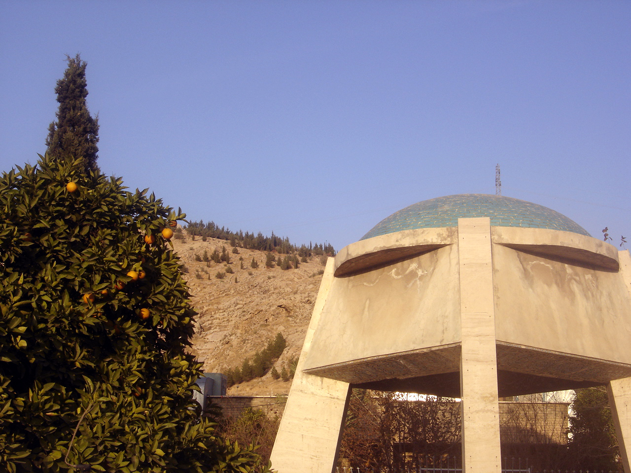 Tomb of Jalaluddin Shah Shuja Muzafari, son of Amir Mubarezeddin, founder of the Muzaffarid dynasty. 14th century. Shiraz, Iran.